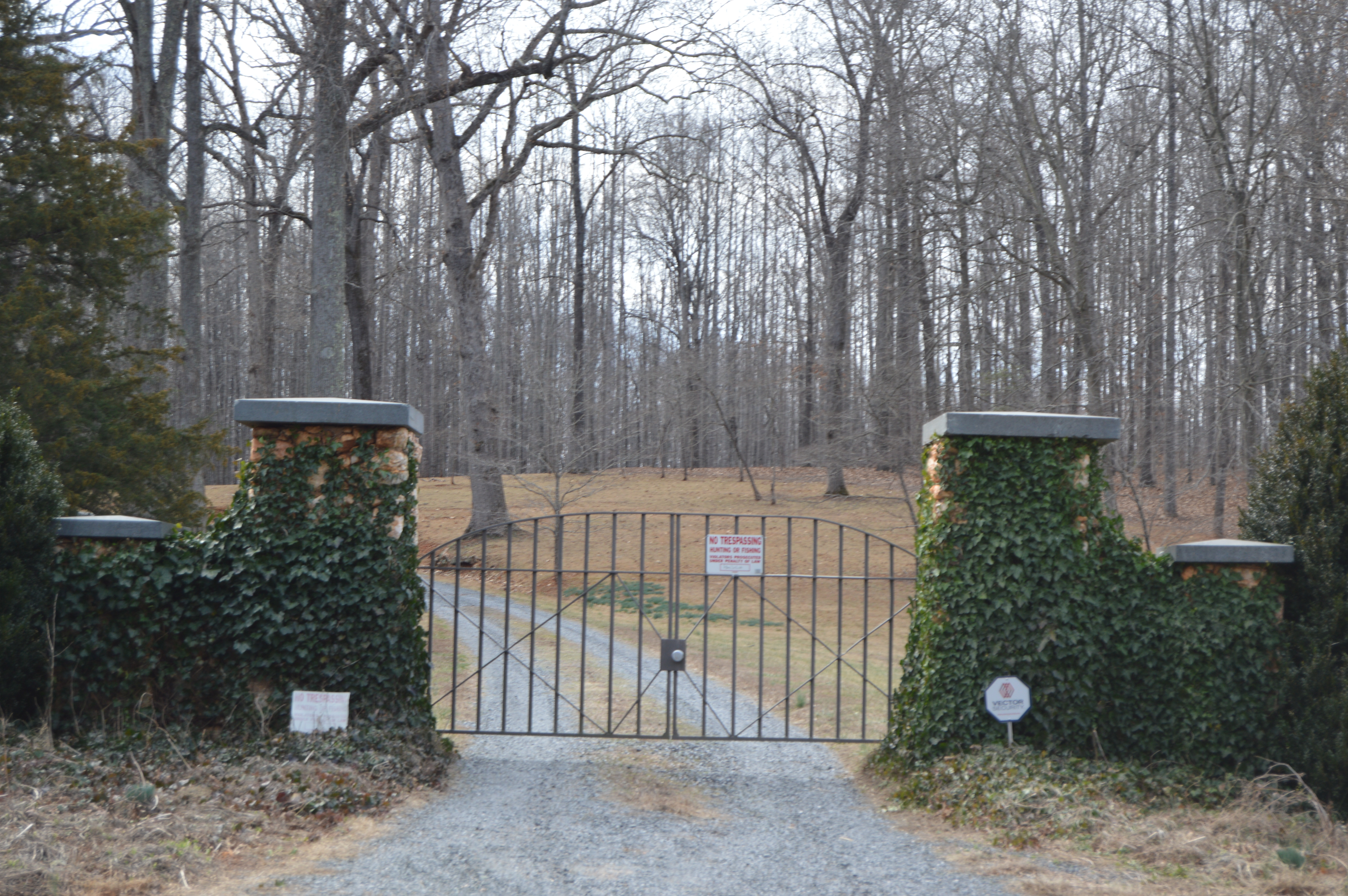 A gate at the end of a driveway on Alberene Road west of Esmont in Albemarle County, Virginia, United States. This is the entrance to the Guthrie Hall estate, which is listed on the National Register of Historic Places.